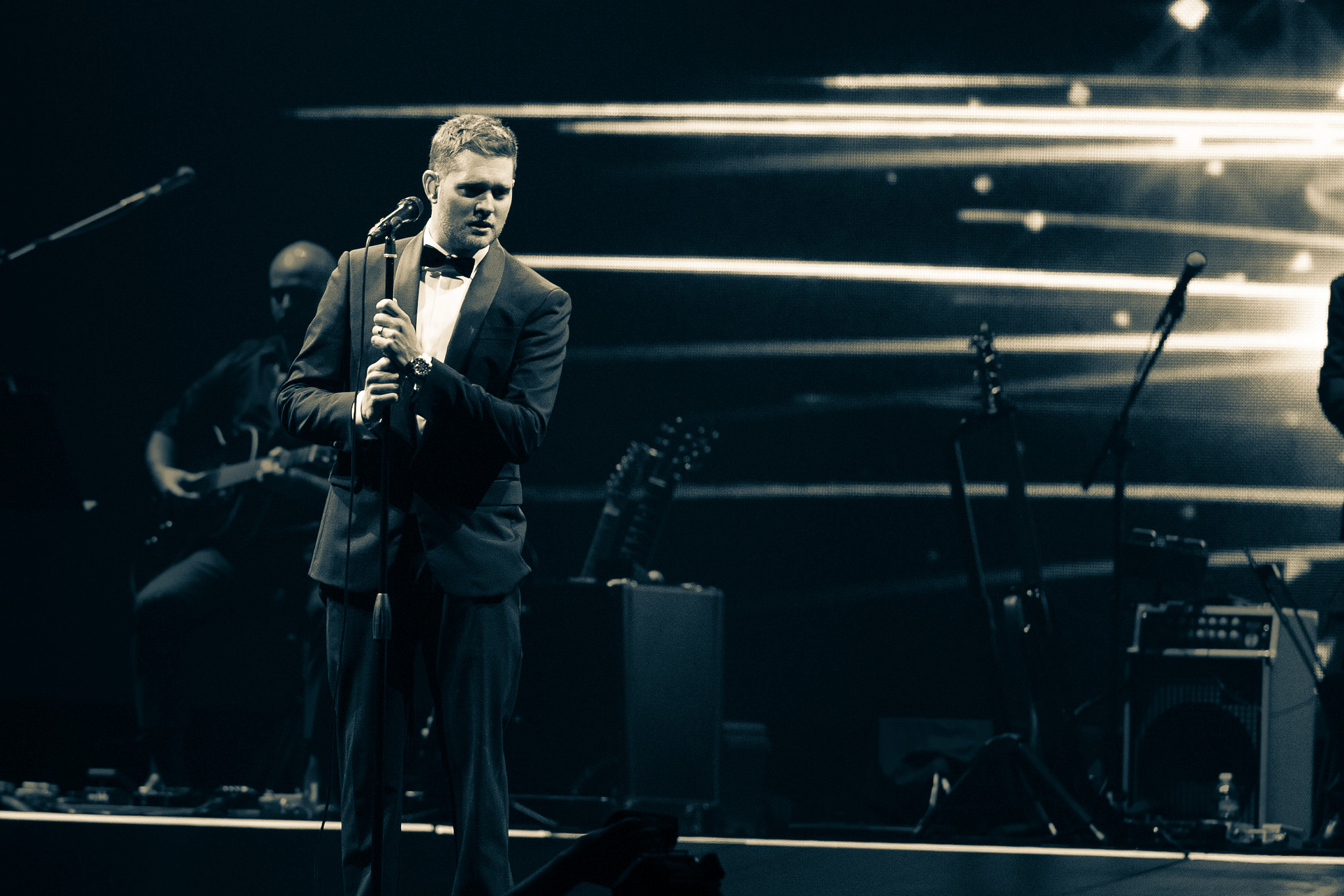 500px provided description: Michael Buble performs at Key Arena in Seattle during his "To Be Loved Tour." Photo by John Lill [#seattle ,#key arena ,#2013 ,#John Lill ,#Michael Buble ,#the crazy love tour]